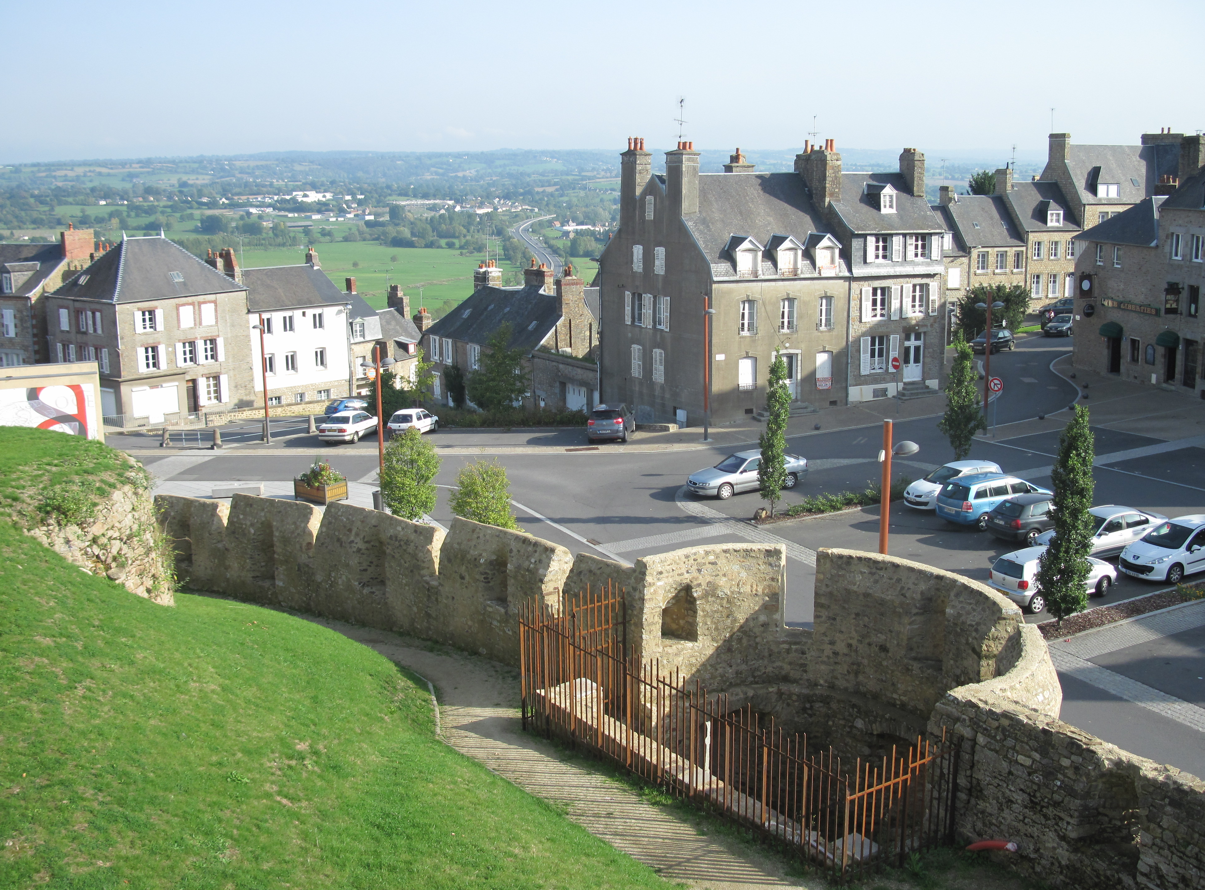 Avranches, 20 October 2010.